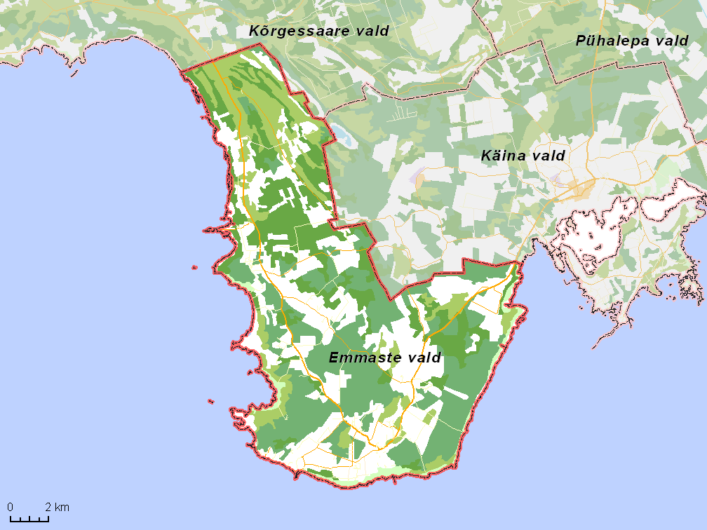 Map of municipality in Estonia